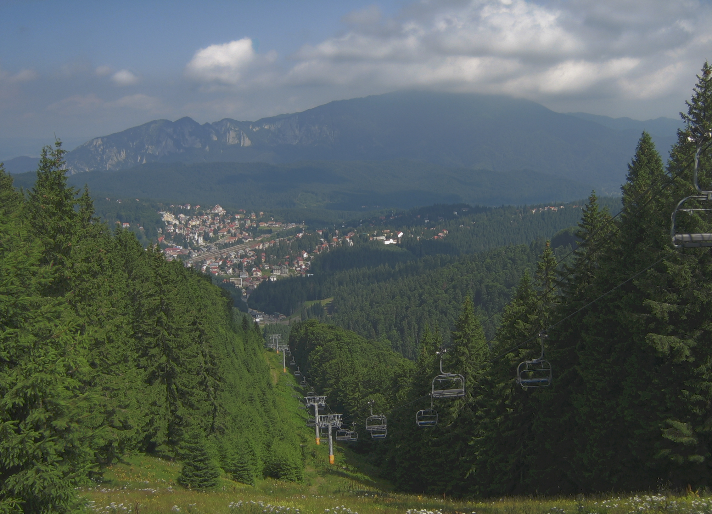 Sight on Predeal valley under Mount Postavaru